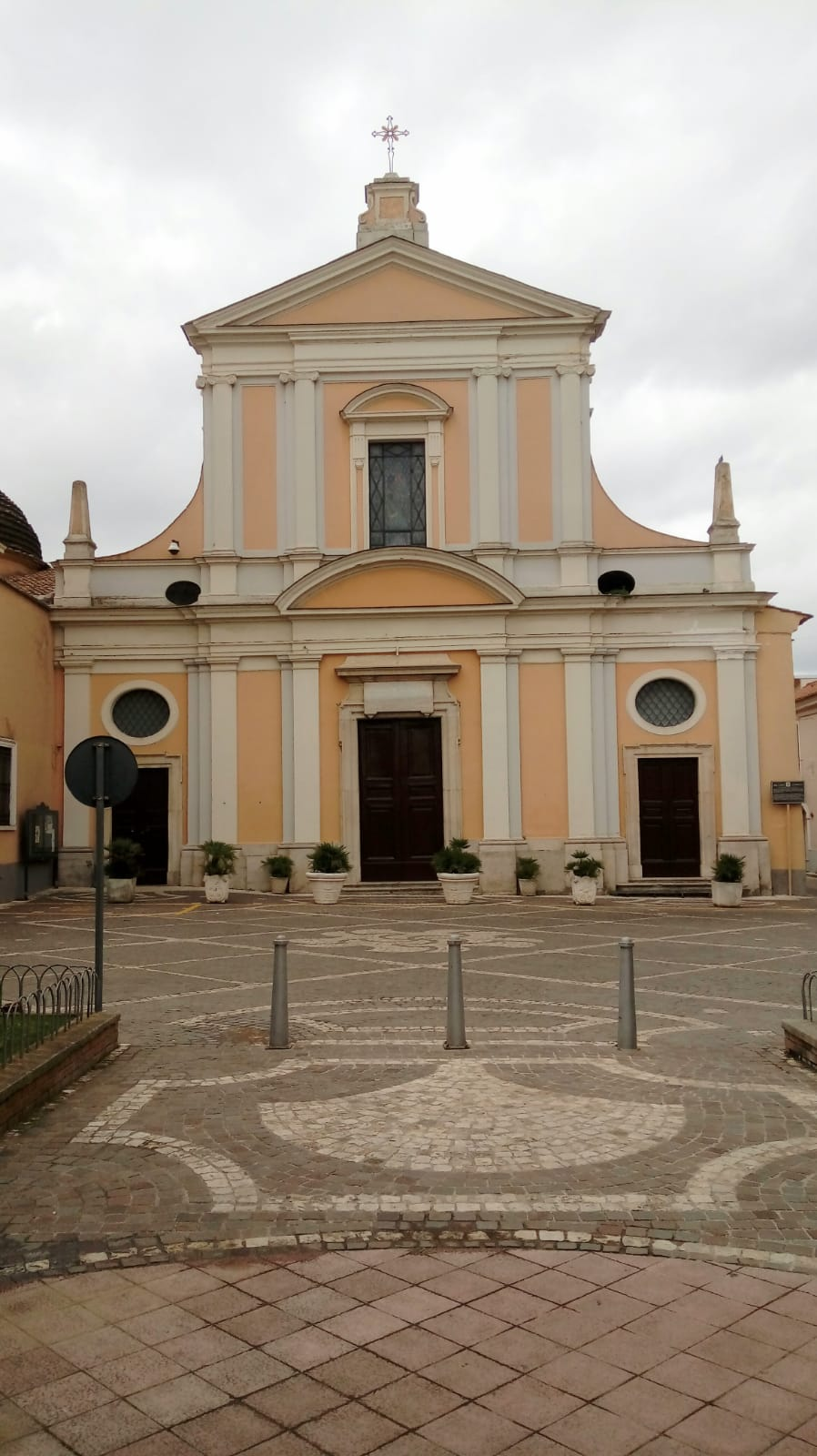 Sant'Elpidio bishop 's church in the city of Casapulla, in Campania, Italy